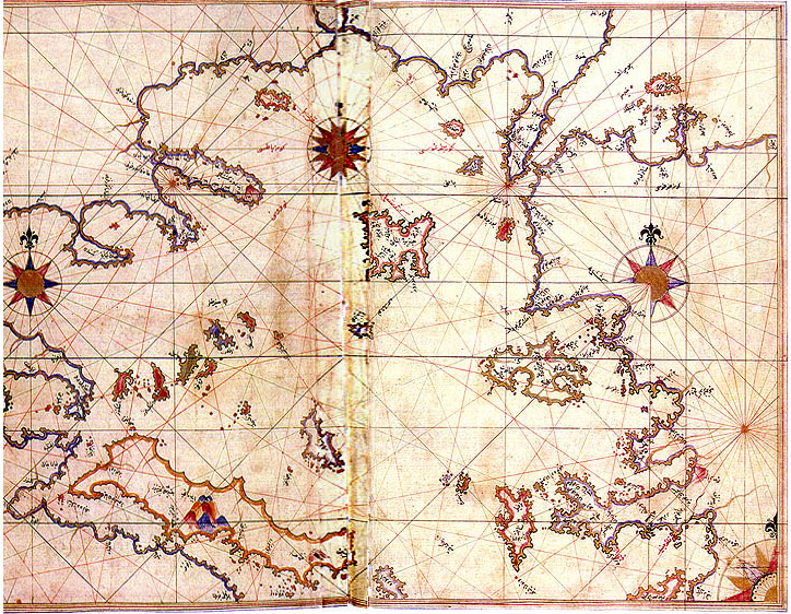 Aegean Sea in the Kitab-ı Bahriye (Book of Navigation) of Piri Reis Map of Rhodes and Marmaris made by Turkish Admiral Piri Reis appearing in his maritime guide-book of 1528, Kitab-i Bahriye. Original is in Nuruosmaniye Library in Istanbul, Turkey.